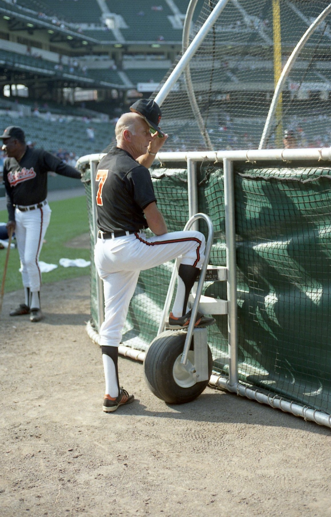 Cal Ripken, Sr.